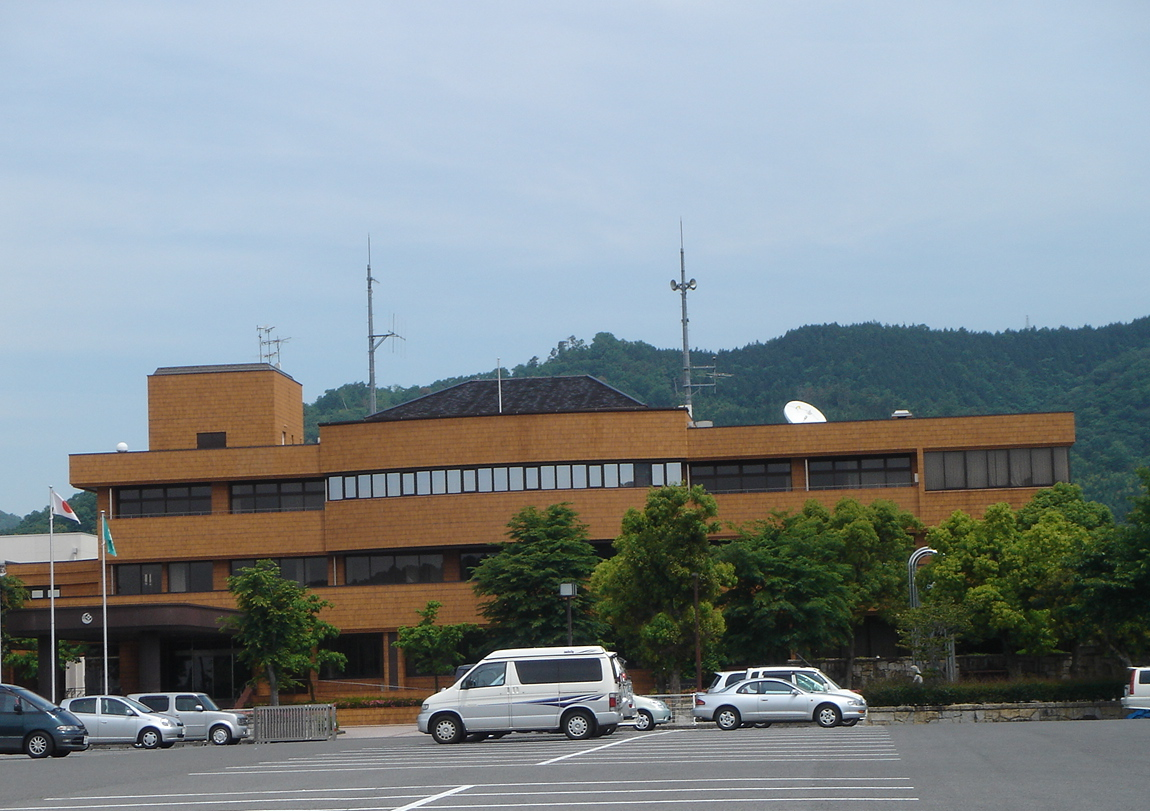 Motosu City Hall（本巣市市役所）,Motosu,Gifu,Japan(岐阜県本巣市)で撮影。